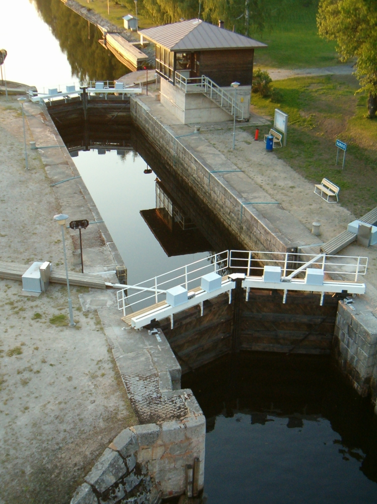 The Karvio canal has 1 lock and was built in 1895–1896. View from the brigde going over the canal and Karvionkoski rapids, 12–14 metres.